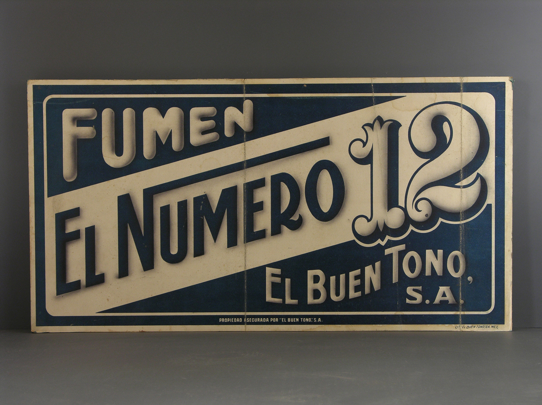 El Buen Tono Cardboard and wood Beginning of 20th century